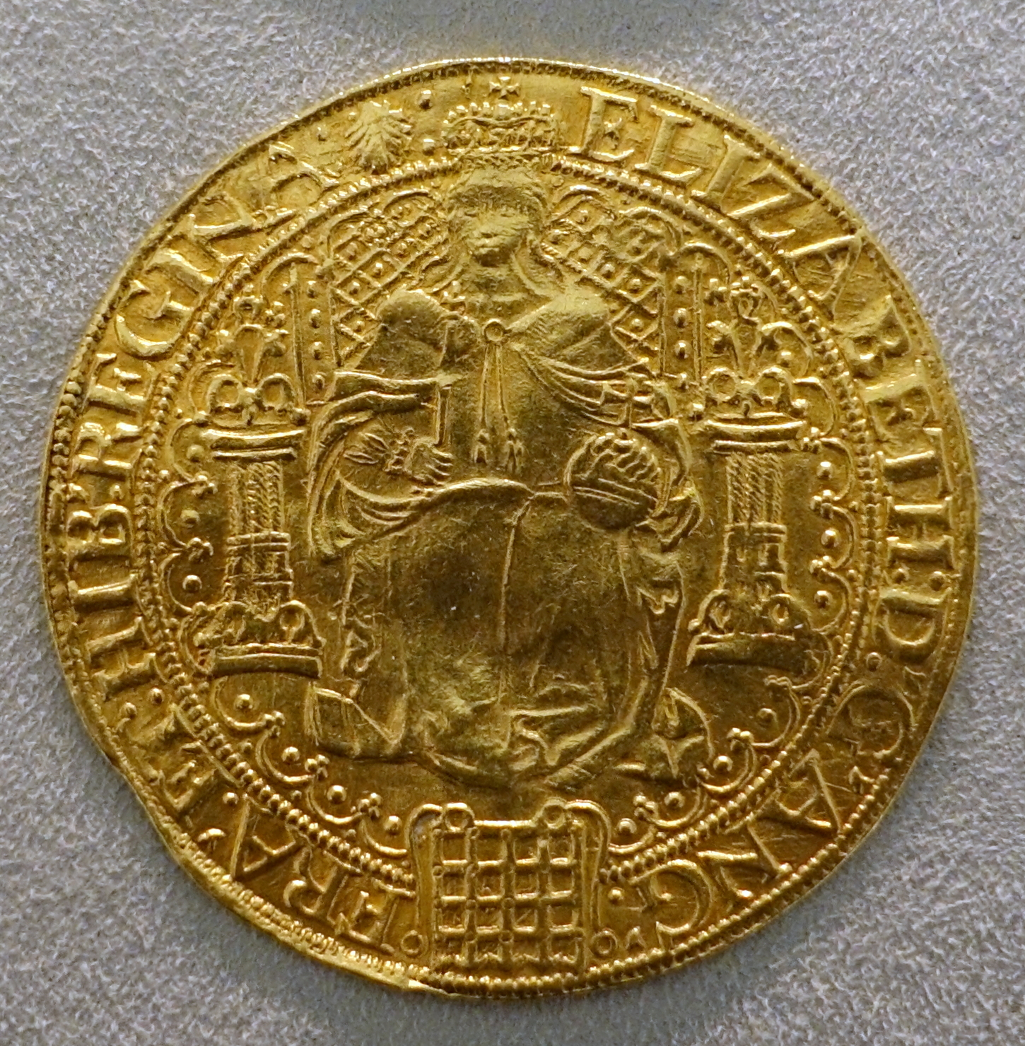 Exhibit in the Bode-Museum, Berlin, Germany. This work is in the public domain because the artist died more than 100 years ago.